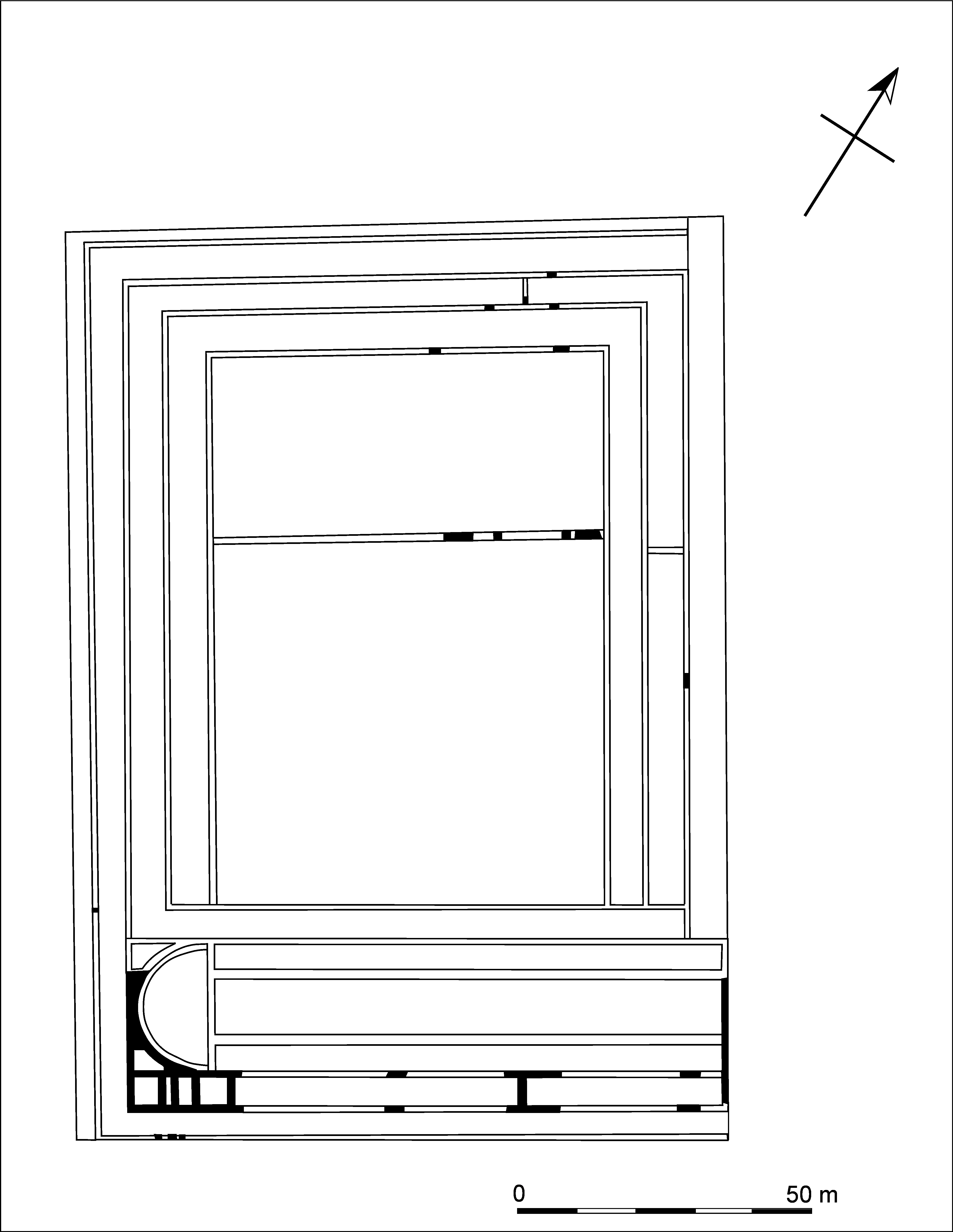 The Roman forum at Cirencester, plan of the excavated parts